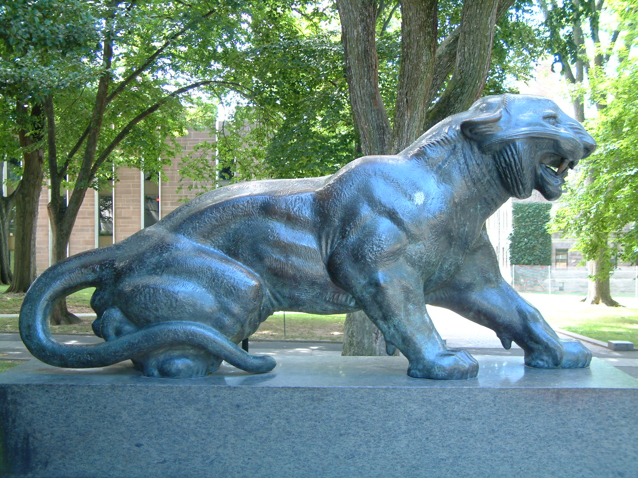 Tiger, Princeton University, Princeton, New Jersey